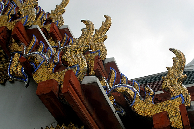 Roof detail at Wat Pho, Bangkok, Thailand